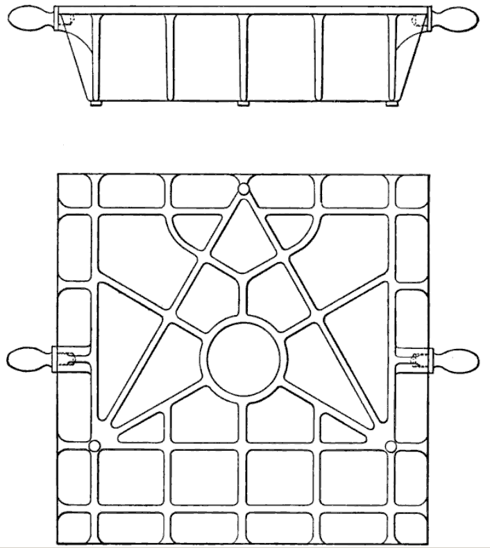 A cast iron surface plate. The top image is a side view and the bottom image is bottom view.